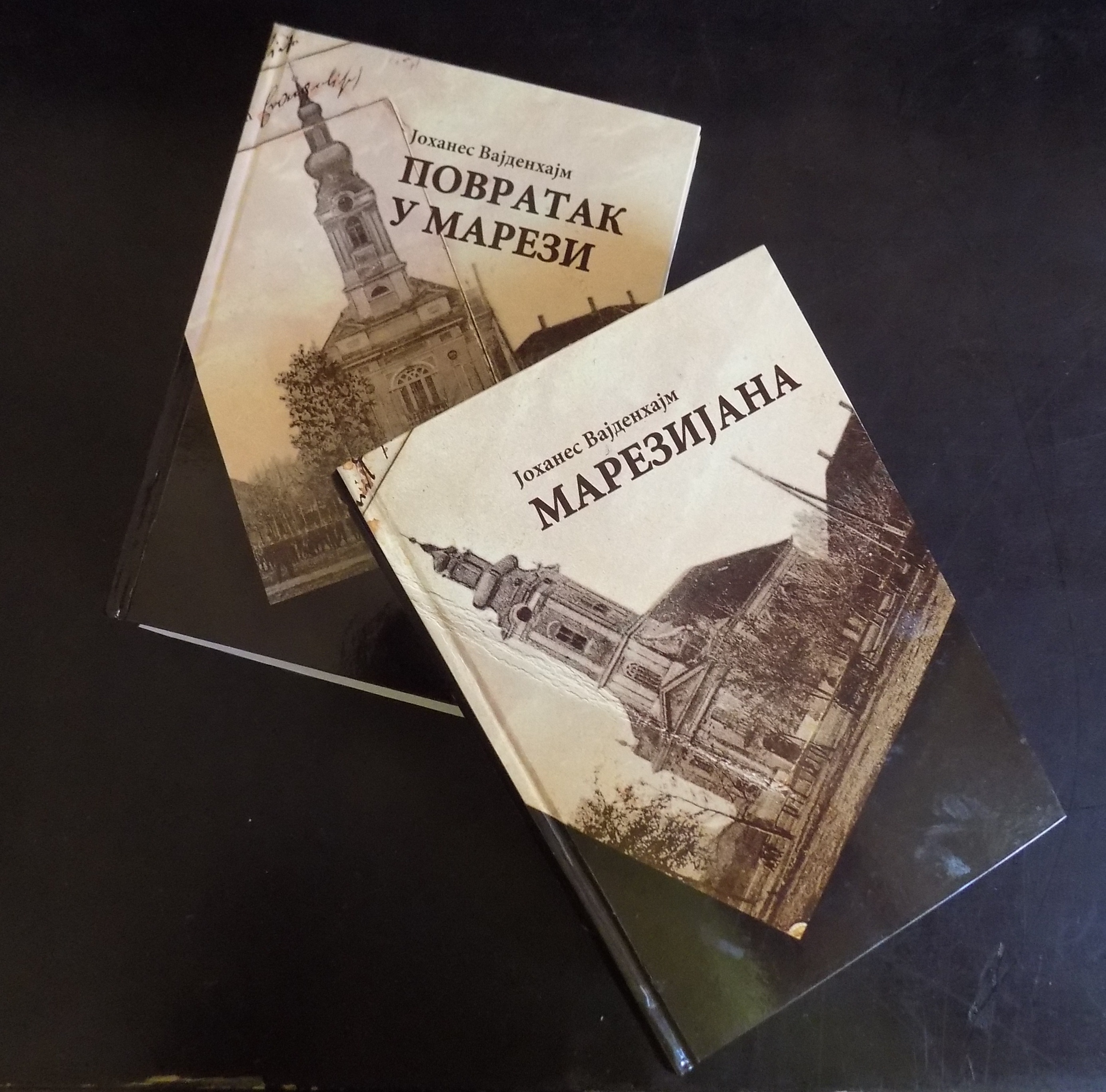 Books published by the Cultural Center Vrbas, a museum collection